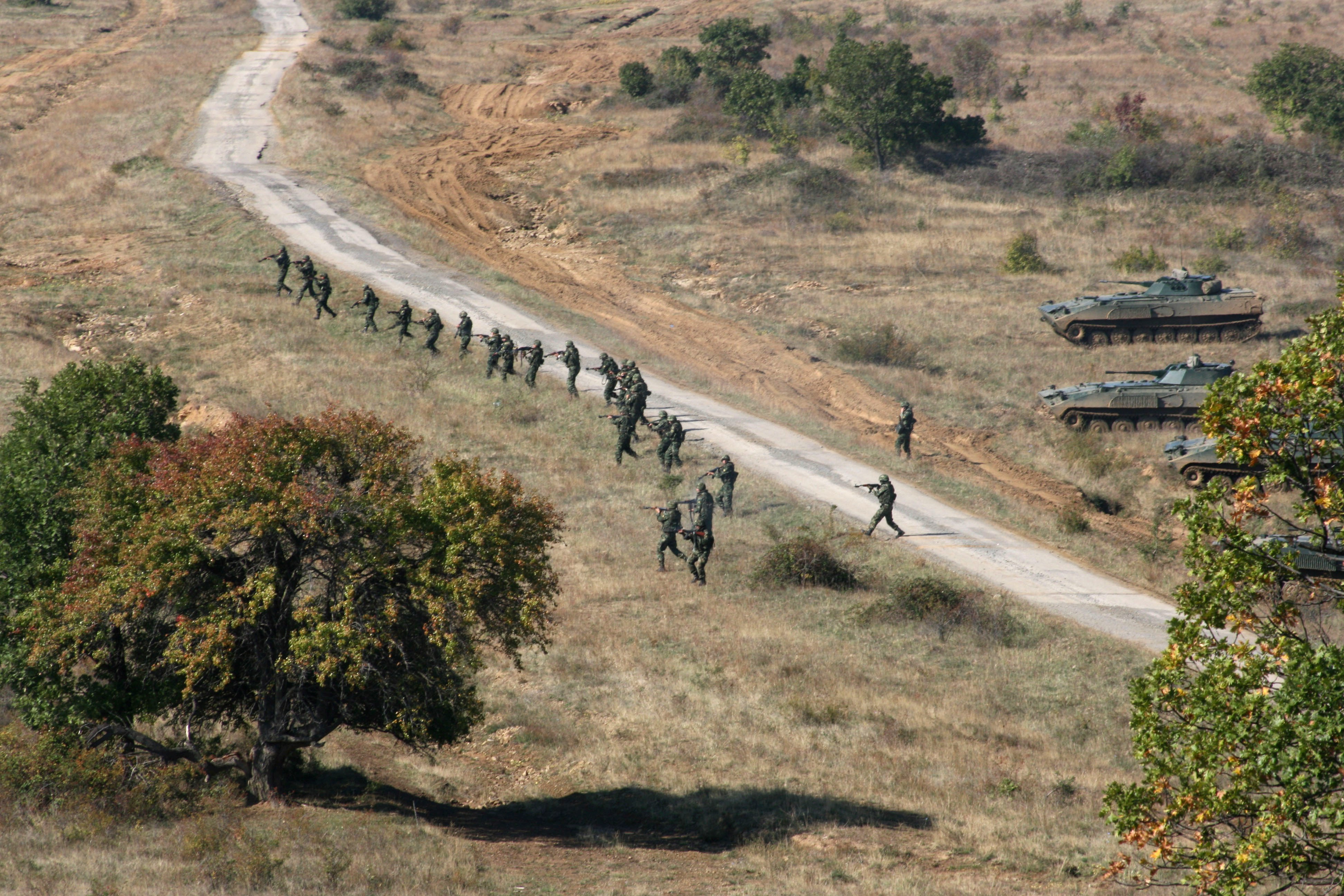 Bulgarian Land Forces troops engage an enemy Oct. 8 while suppressive fire comes from the U.S. Army's 2nd Stryker Cavalry Regiment during a demonstration at a training range here.